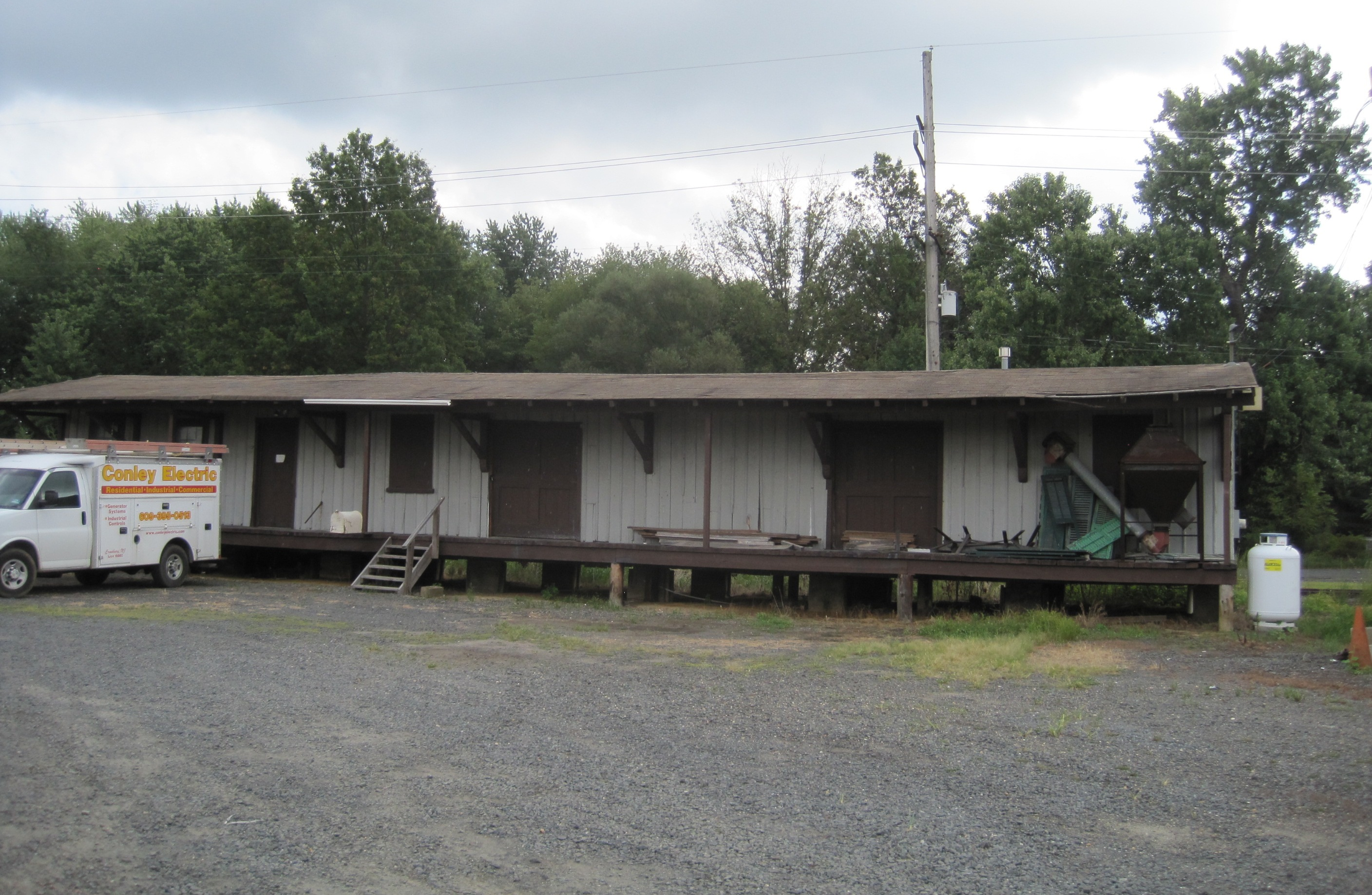 Photo of the former train station at Cranbury Station, New Jersey, an unincorporated community within Cranbury Township. Photo taken along northbound Cranbury Station Road between the New Jersey Turnpike overpass and Station Road (County Route 615).